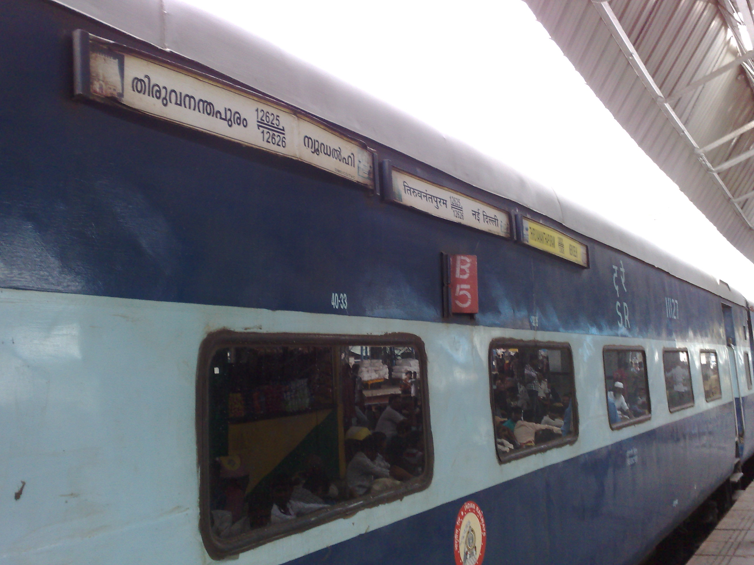 12626 Kerala Express - AC 3 tier